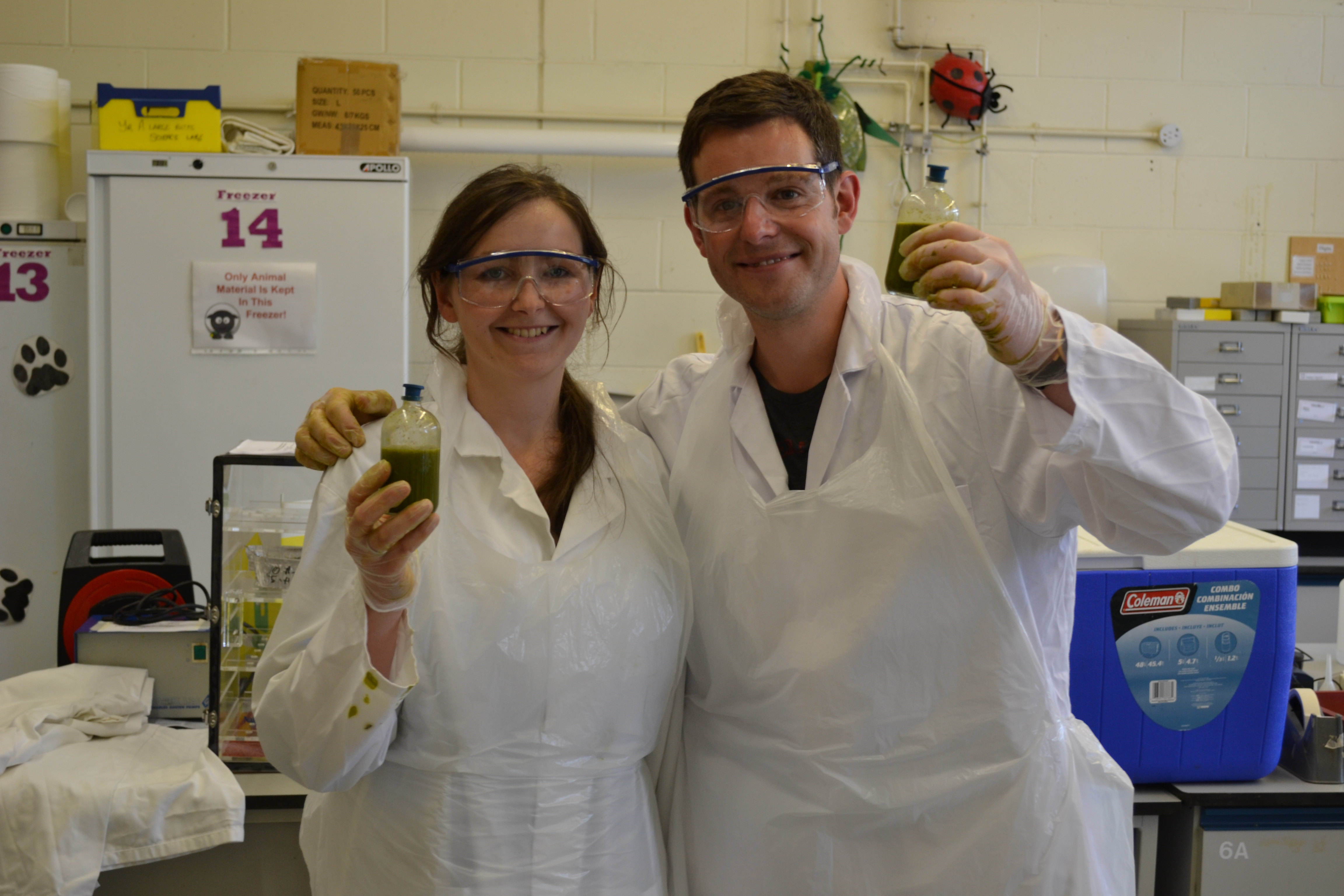 This photo was taken during Writtle College's appearance on BBC Countryfile in July 2013.